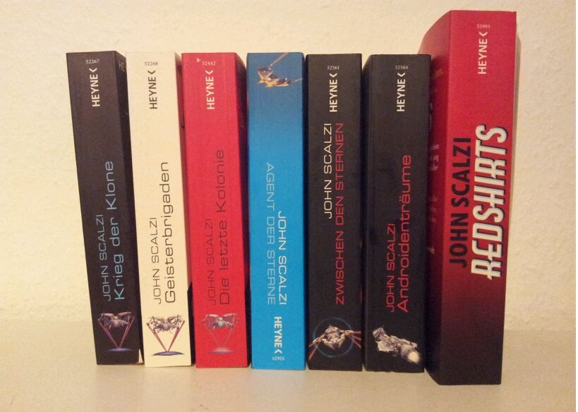 All German Books from John Scalzi